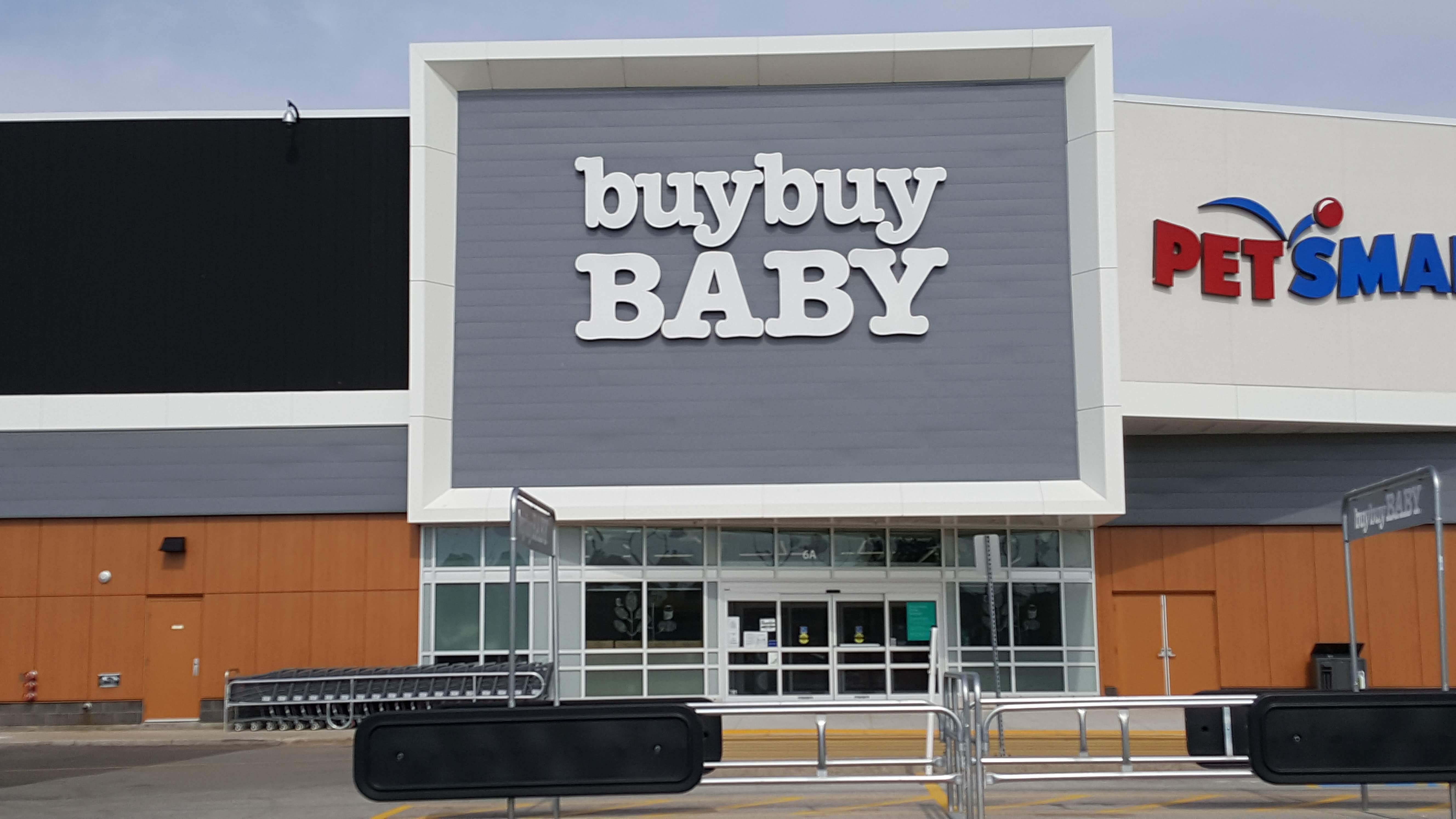 buy buy BABY store at Oakville Place